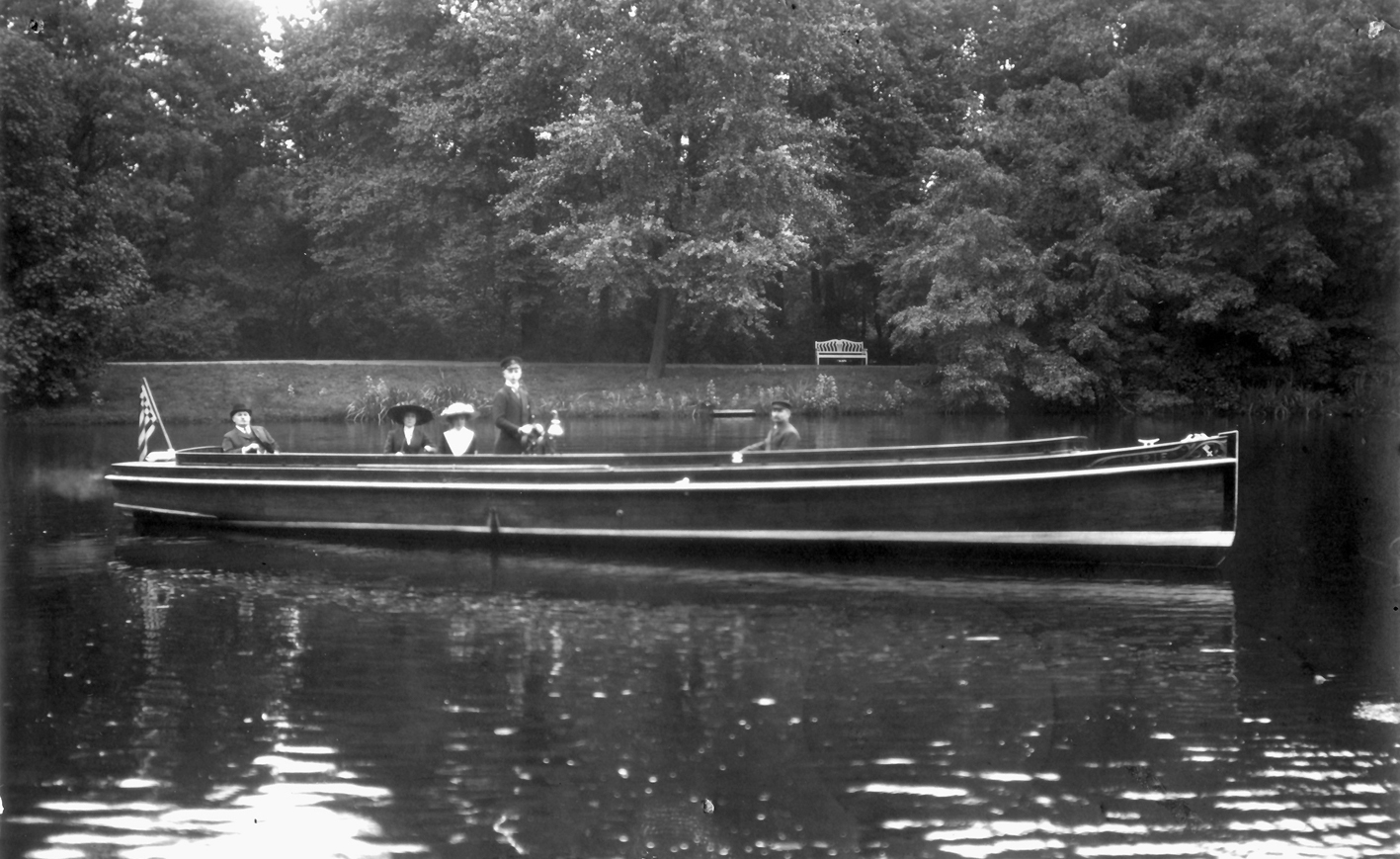 The original boat Marie in the Bürgerpark in Bremen, Germany.